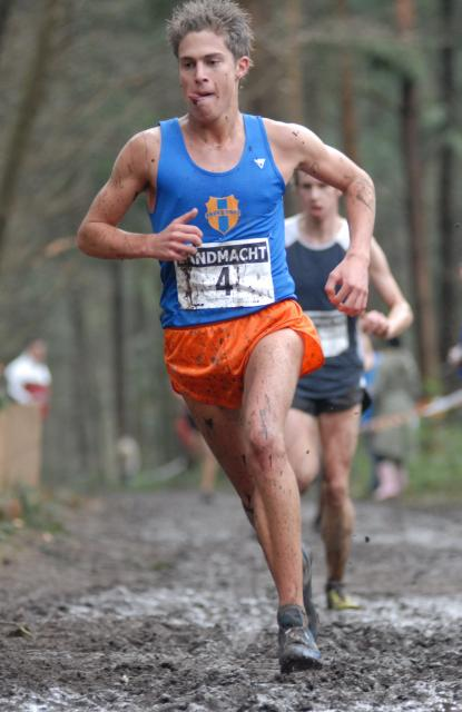 Michel Butter during Dutch Championship Cross 2007